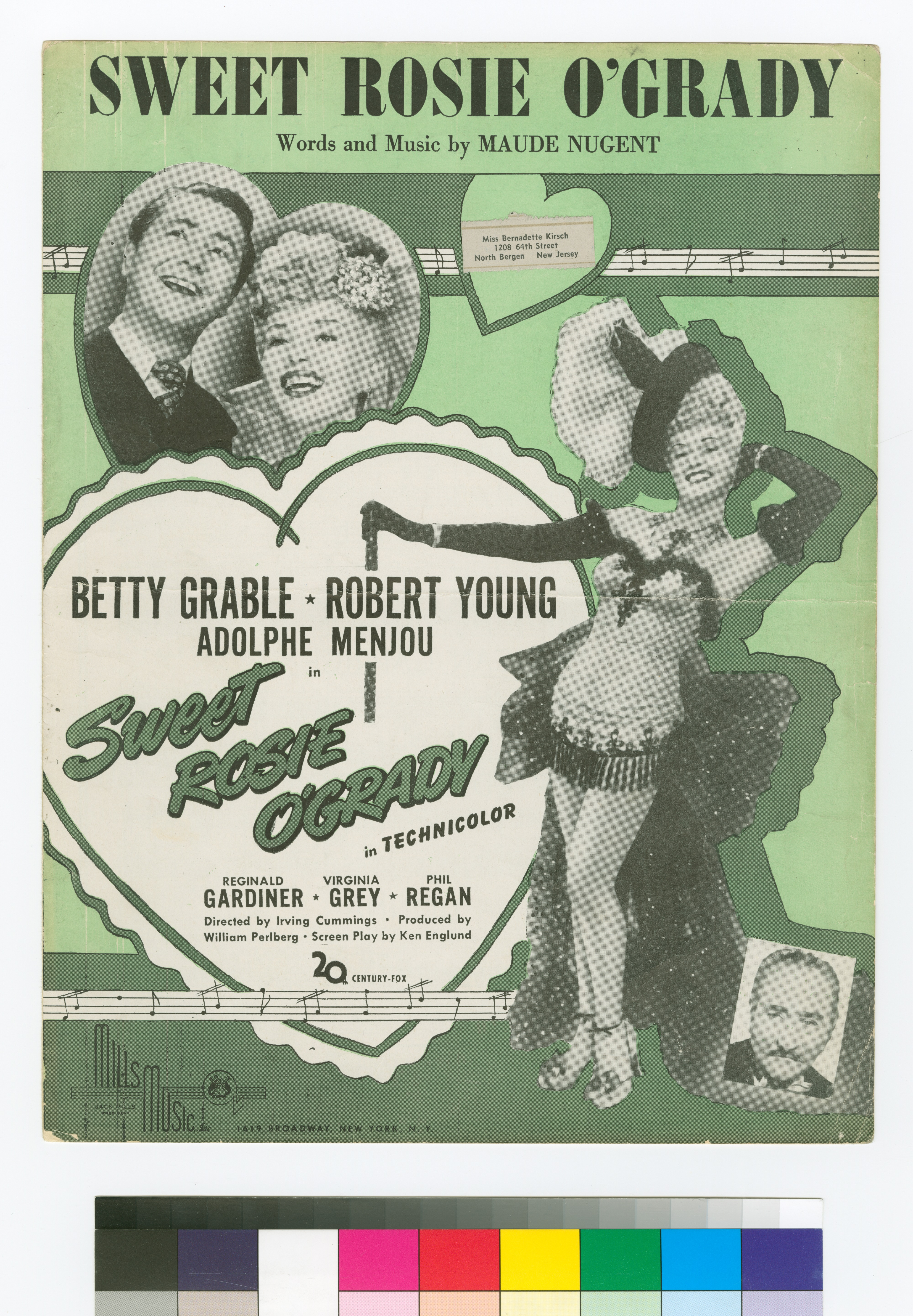 On cover: Betty Grable, Robert Young, Adolphe Menjou. Statement of responsibility : words and music by Maude Nugent.